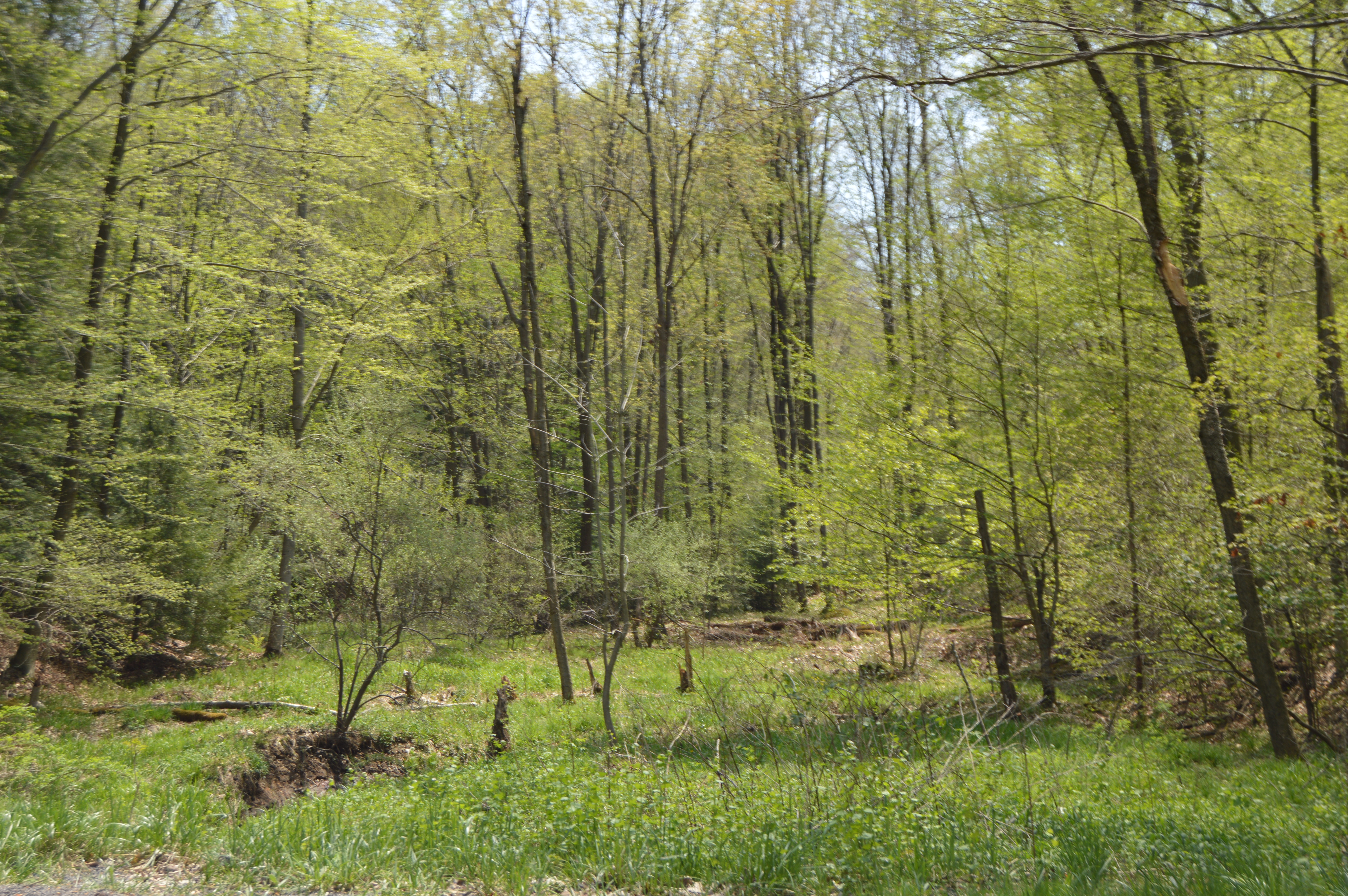 A small stream (one of the forks of Ugly Run) flows through a small clearing in the woods of far southern Gaskill Township, Jefferson County, Pennsylvania, United States. Scene is on the southern side of a sharp curve on Winslow Road between Johnsonburg and Winslow.